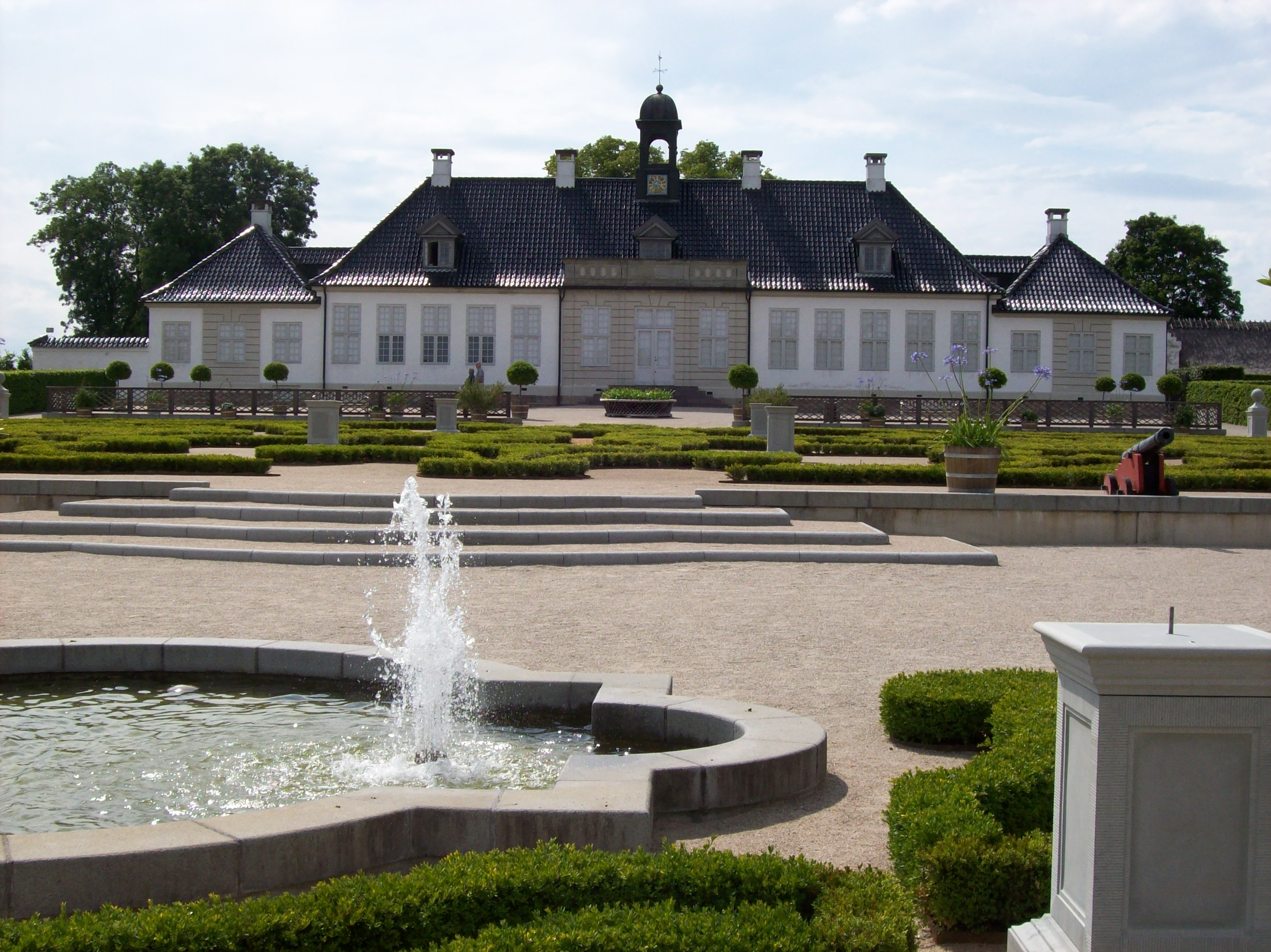 Gammelholtegaard barocco garden